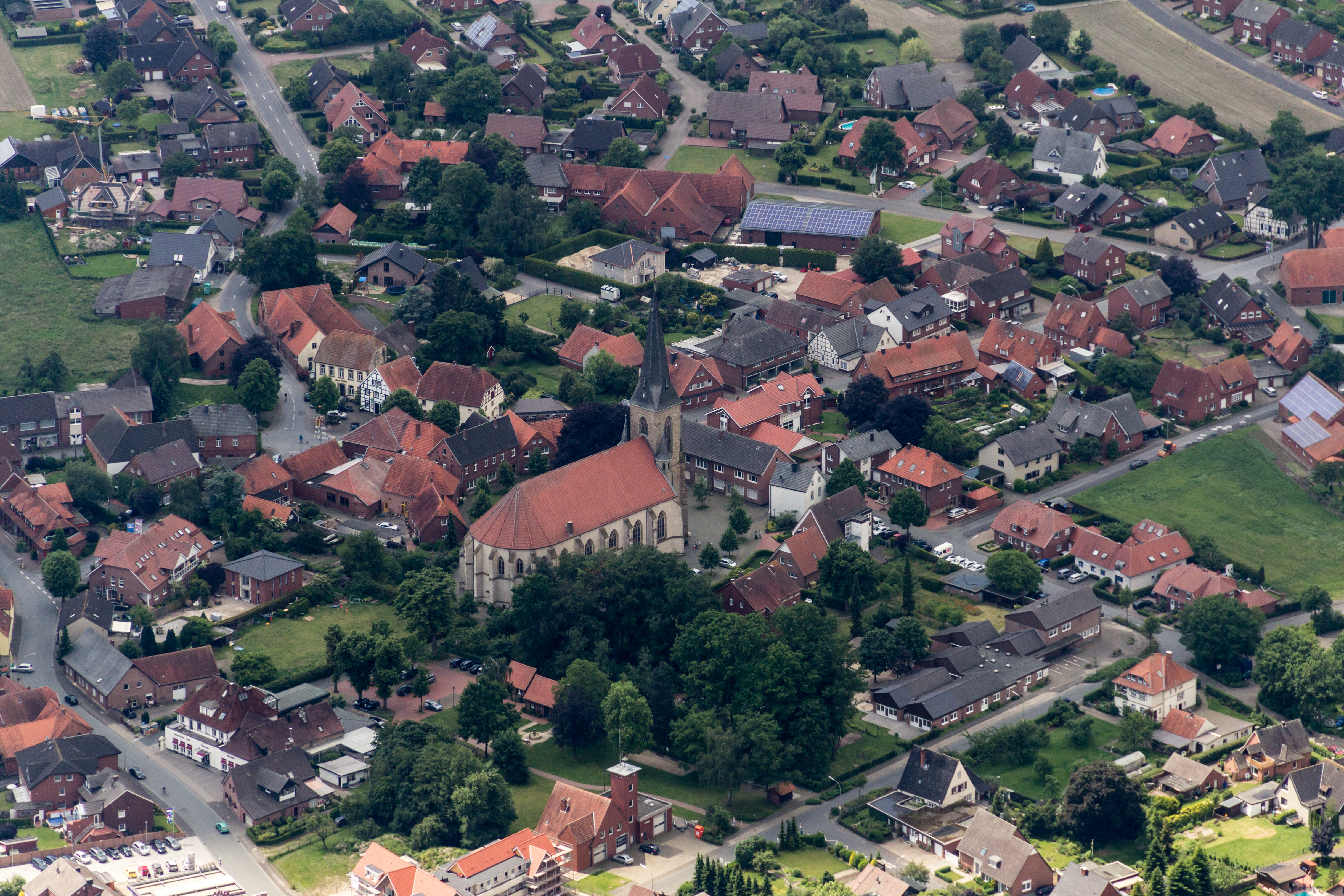 St. Mary's Assumption Church, Füchtorf, Sassenberg, North Rhine-Westphalia, Germany